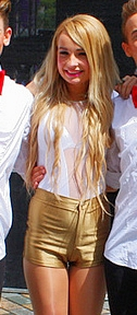 Kim Petras in GayMat 2012.